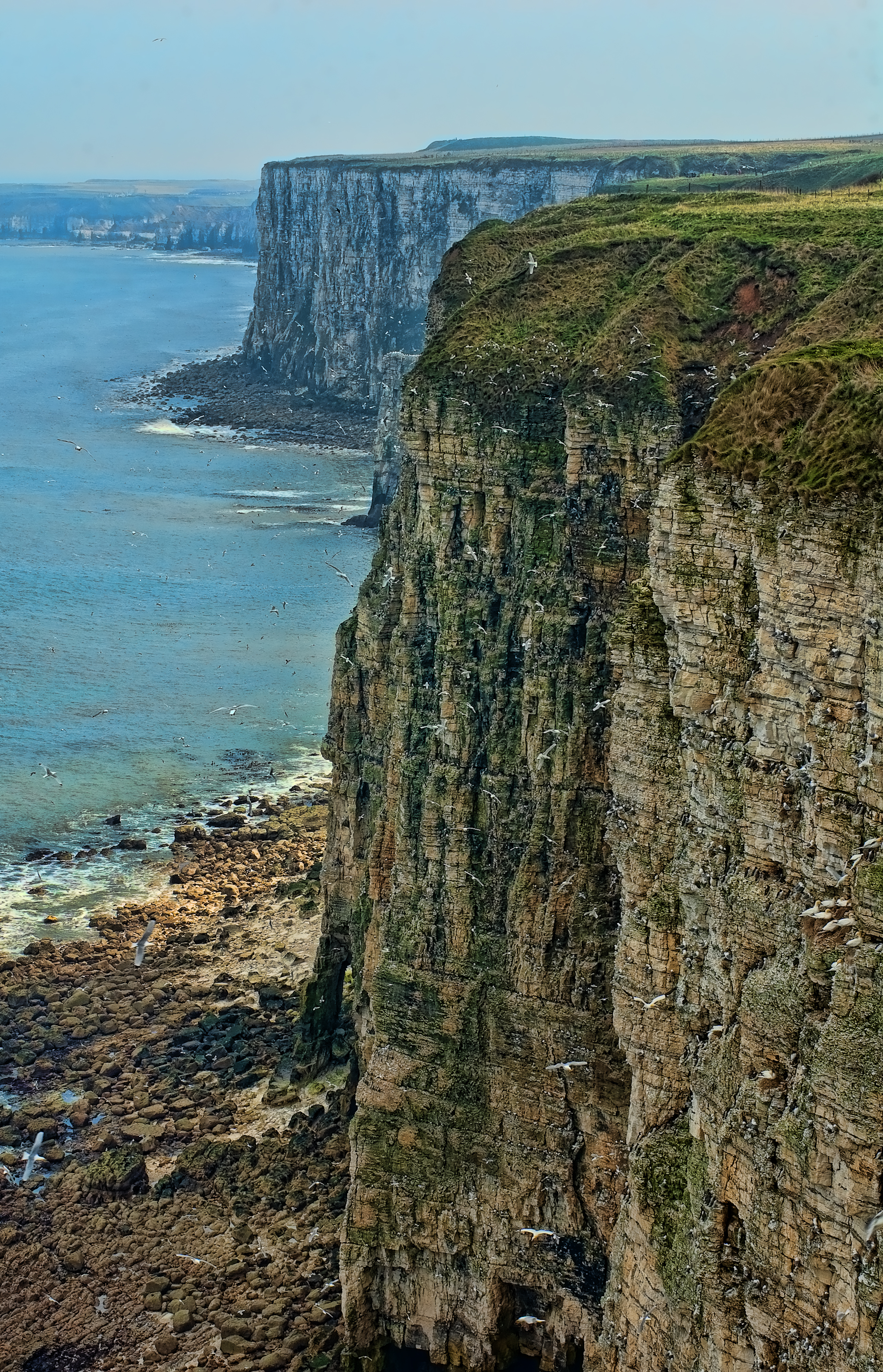 RSPB nature reserve at Bempton, East Riding of Yorkshire, England.